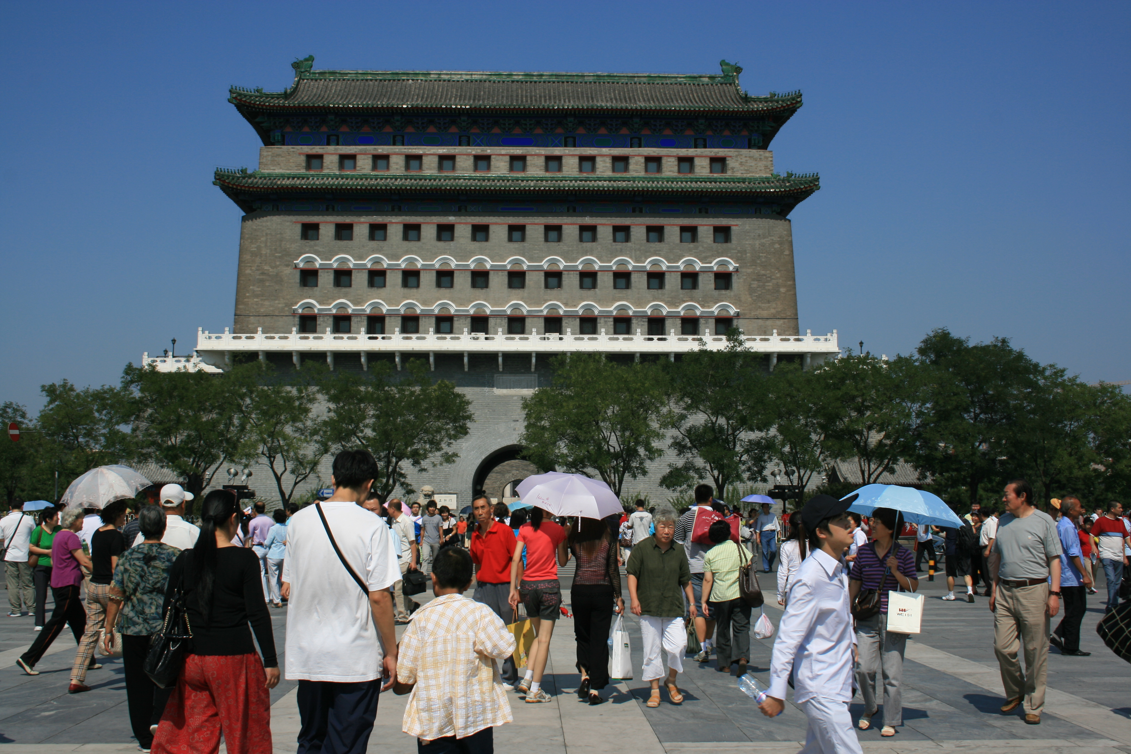 The Qianmen gate tower at the Tiananmen Square in Beijing